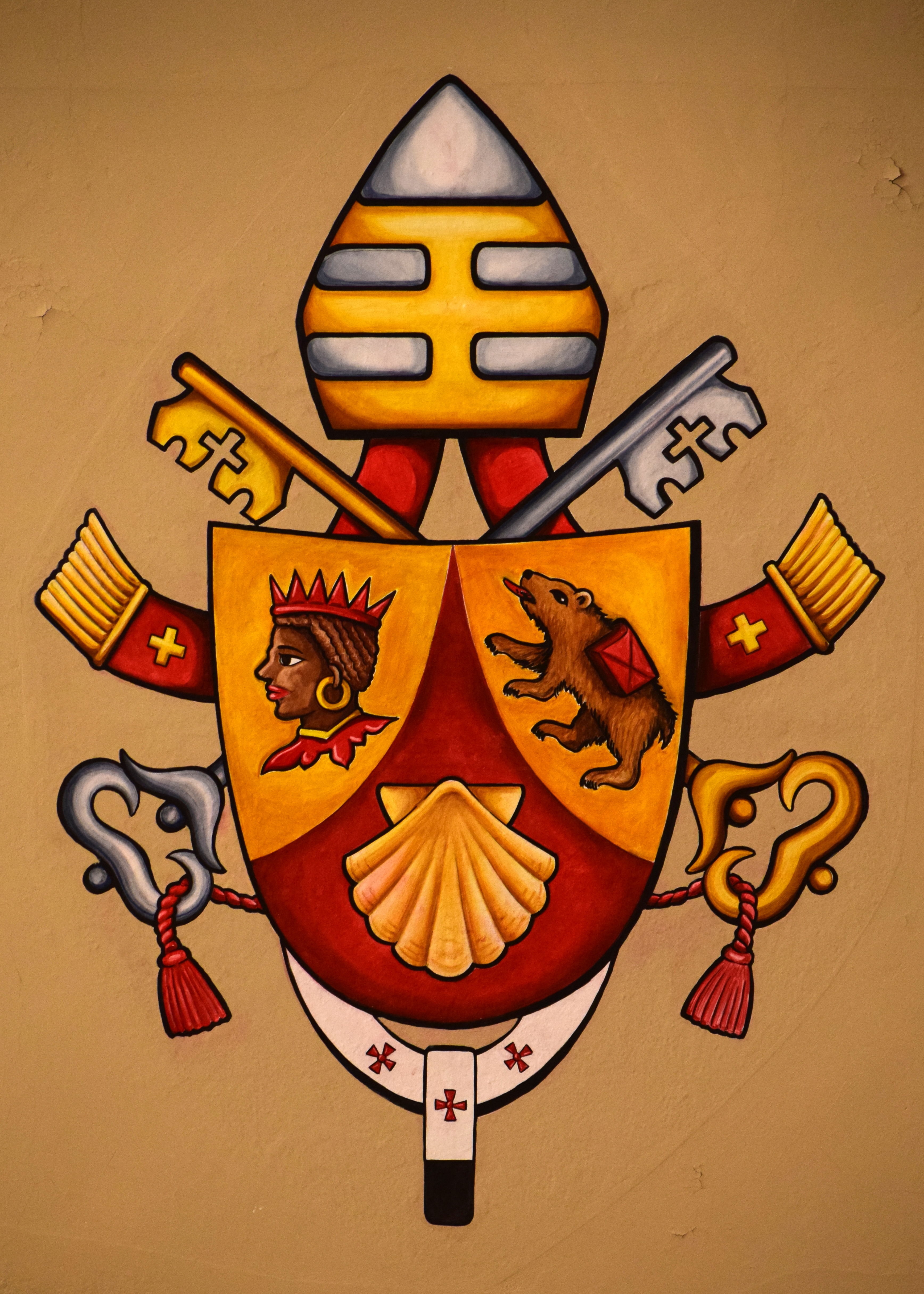 Saint Mary of Victories Church (St. Louis, MO) - Benedict XVI's coat of arms